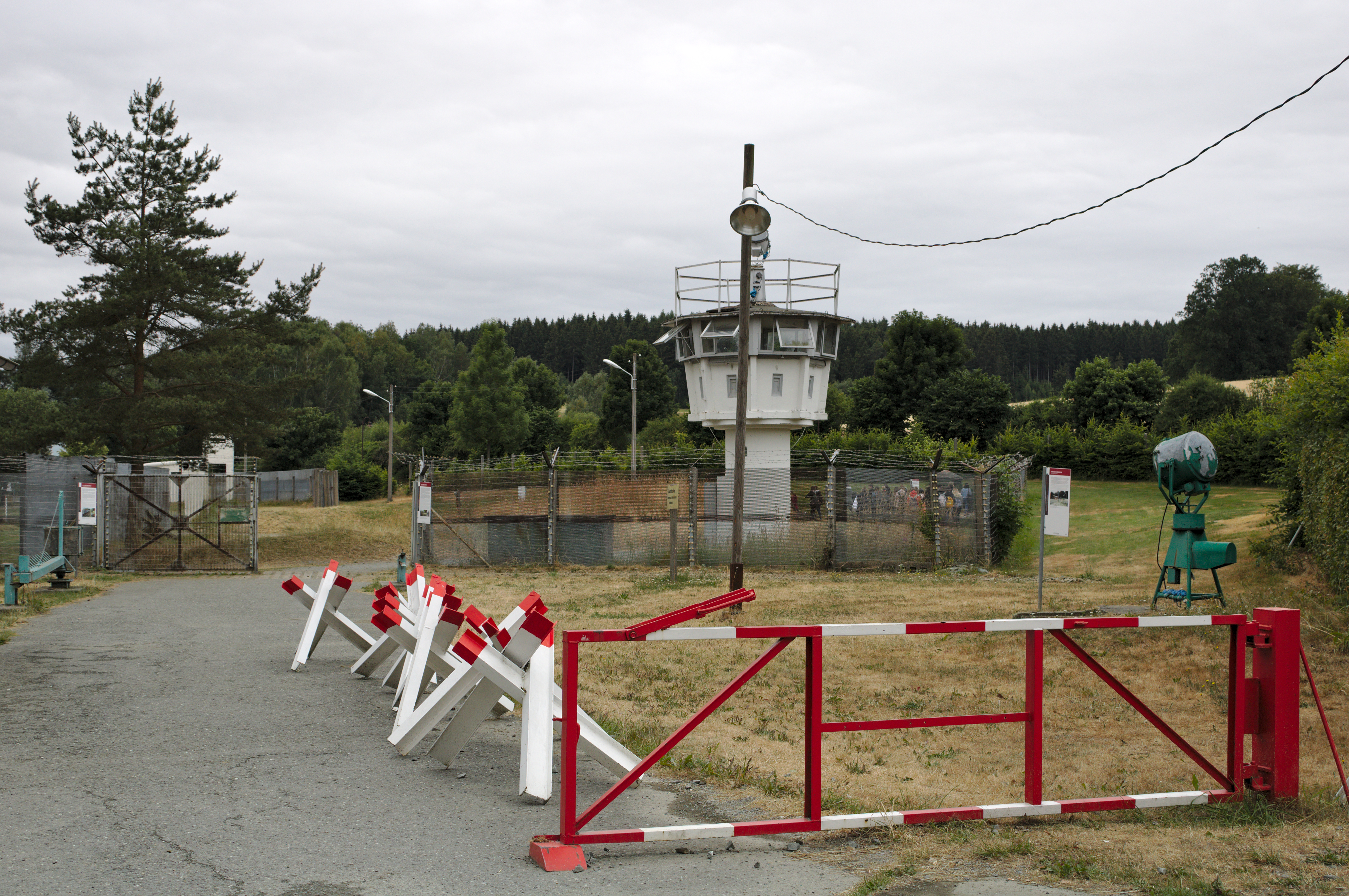 Freilichtmuseum_Moedlareuth in 2019